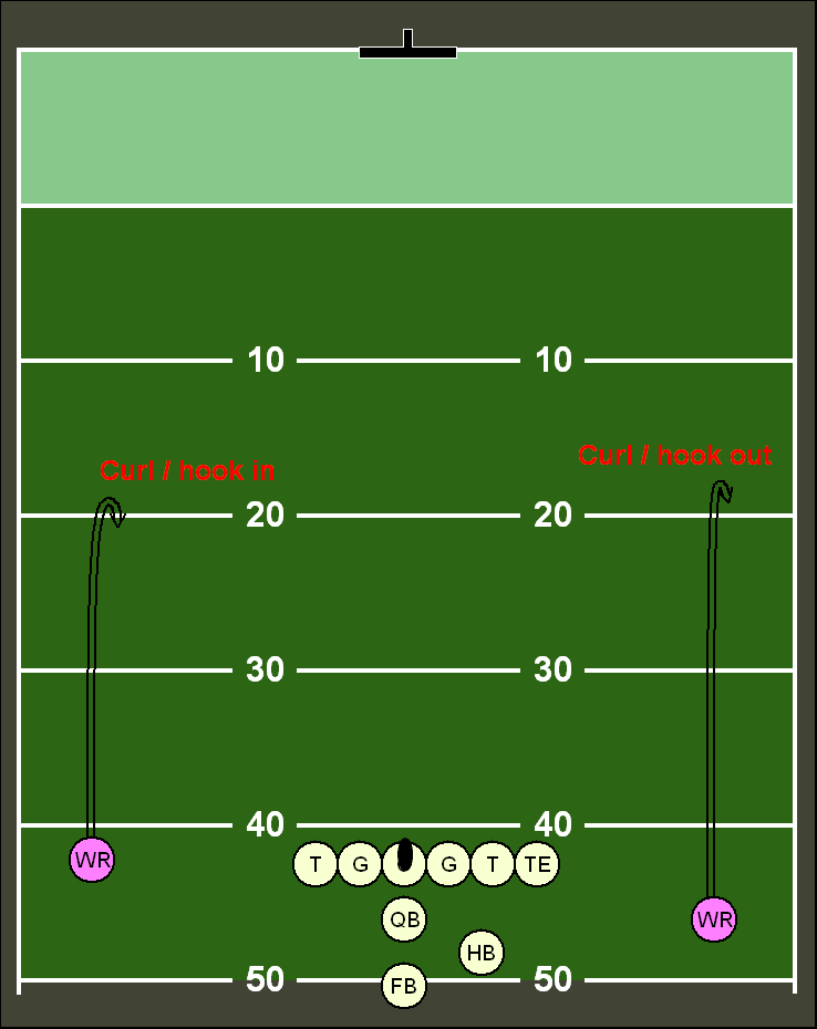 hook route